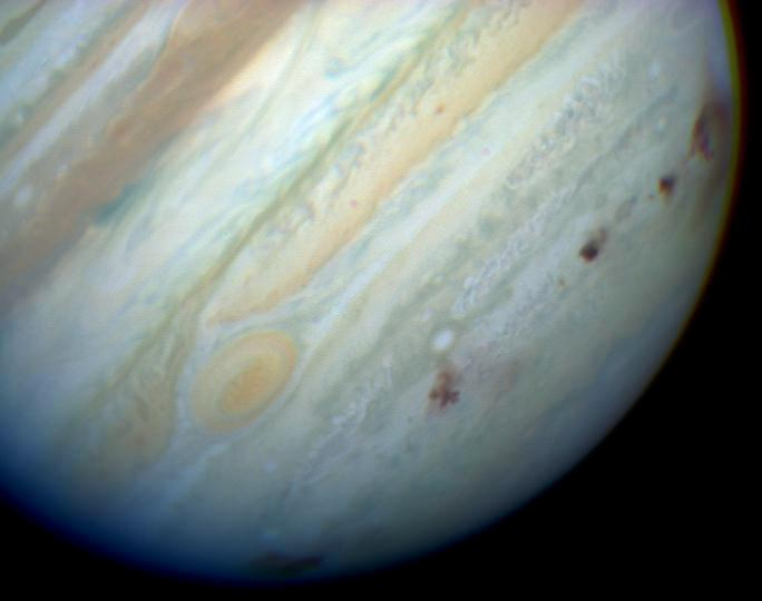 Image of Jupiter with NASA's Hubble Space Telescope's Planetary Camera. Eight impact sights are visible. From left to right are the E/F complex (barley visible on the edge of the planet), the star shaped H site, the impact sites for tiny N, Q1, small Q2, and R, and on the far right limb the D/G complex. The D/G complex also shows extended haze at the edge of the planet. The features are rapidly evolving on timescales of days. The smallest features in the this image are less than 200 kilometers across. This image is a color composite of three filters at 9530, 550, and 4100 Angstroms.